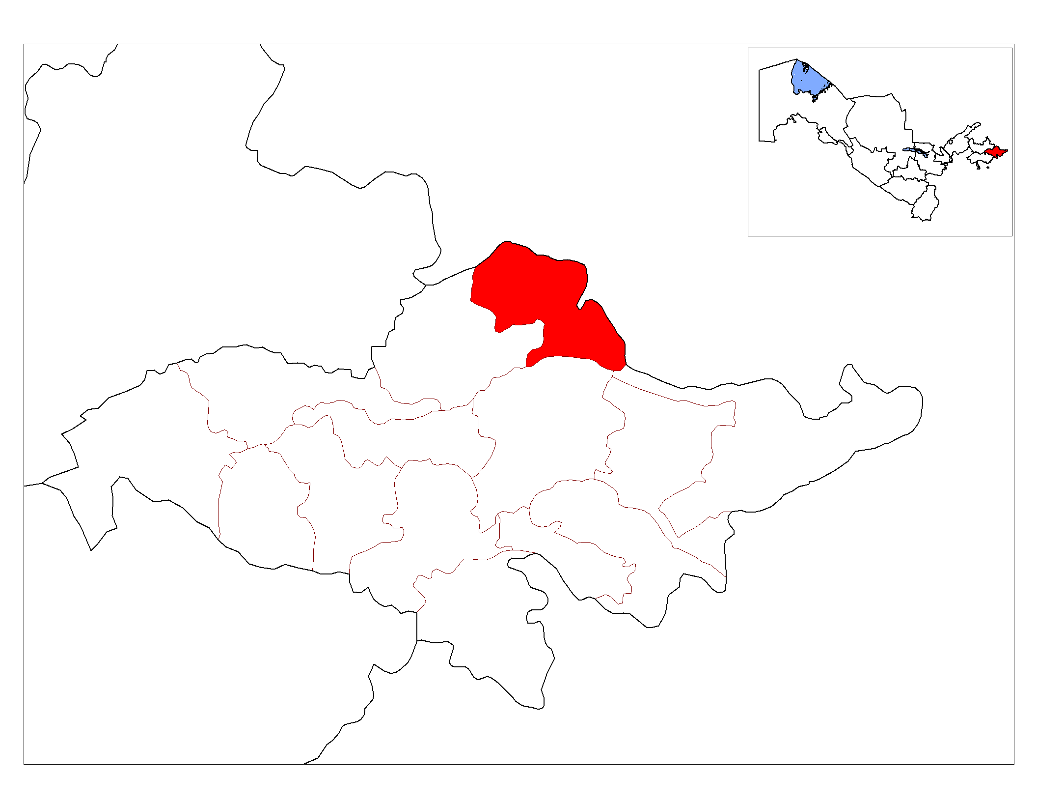 Location of Paxtaobod District in Andijon Province